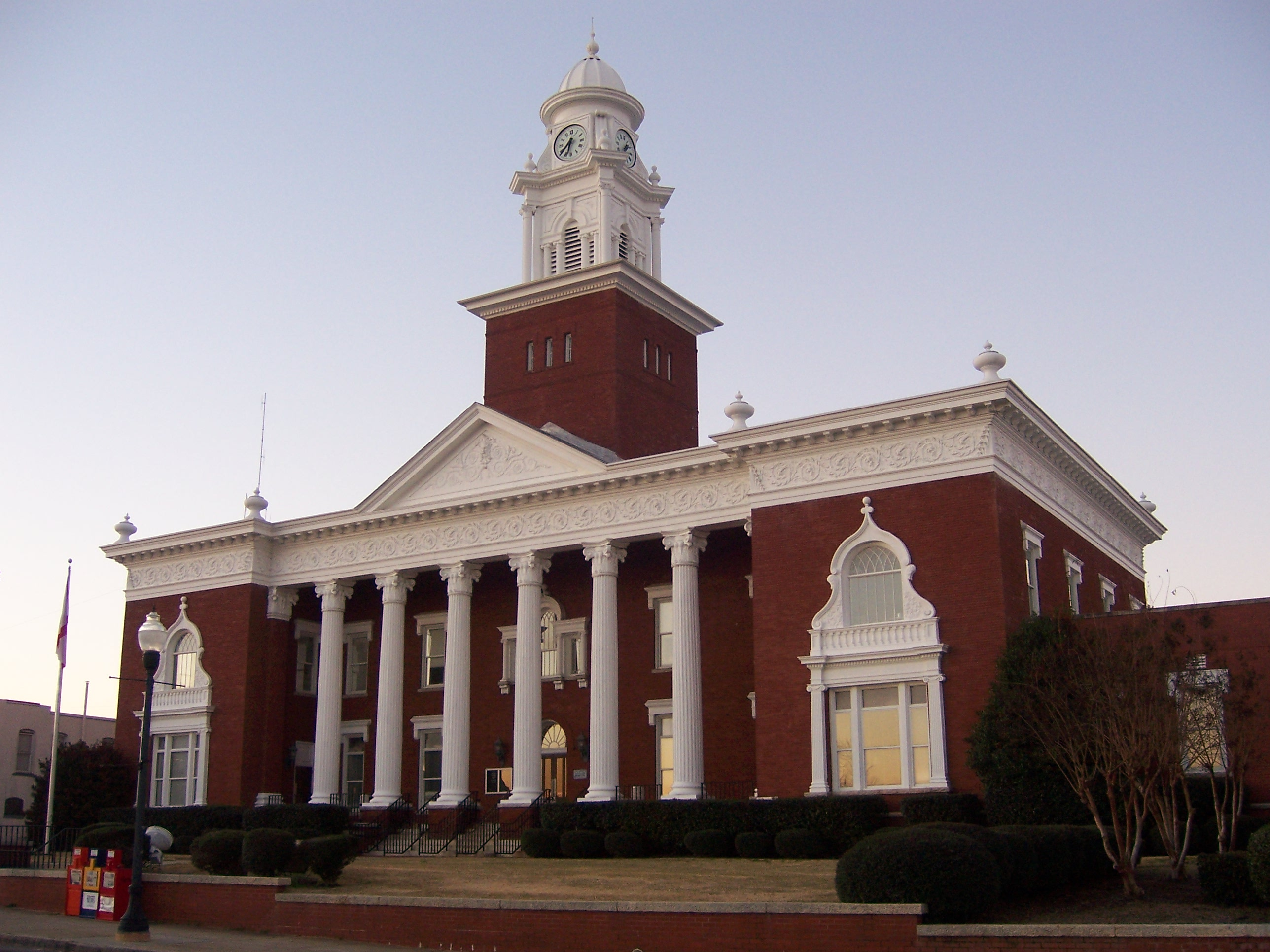 Lee County Courthouse in Opelika, Lee County, Alabama, United States just after daybreak.